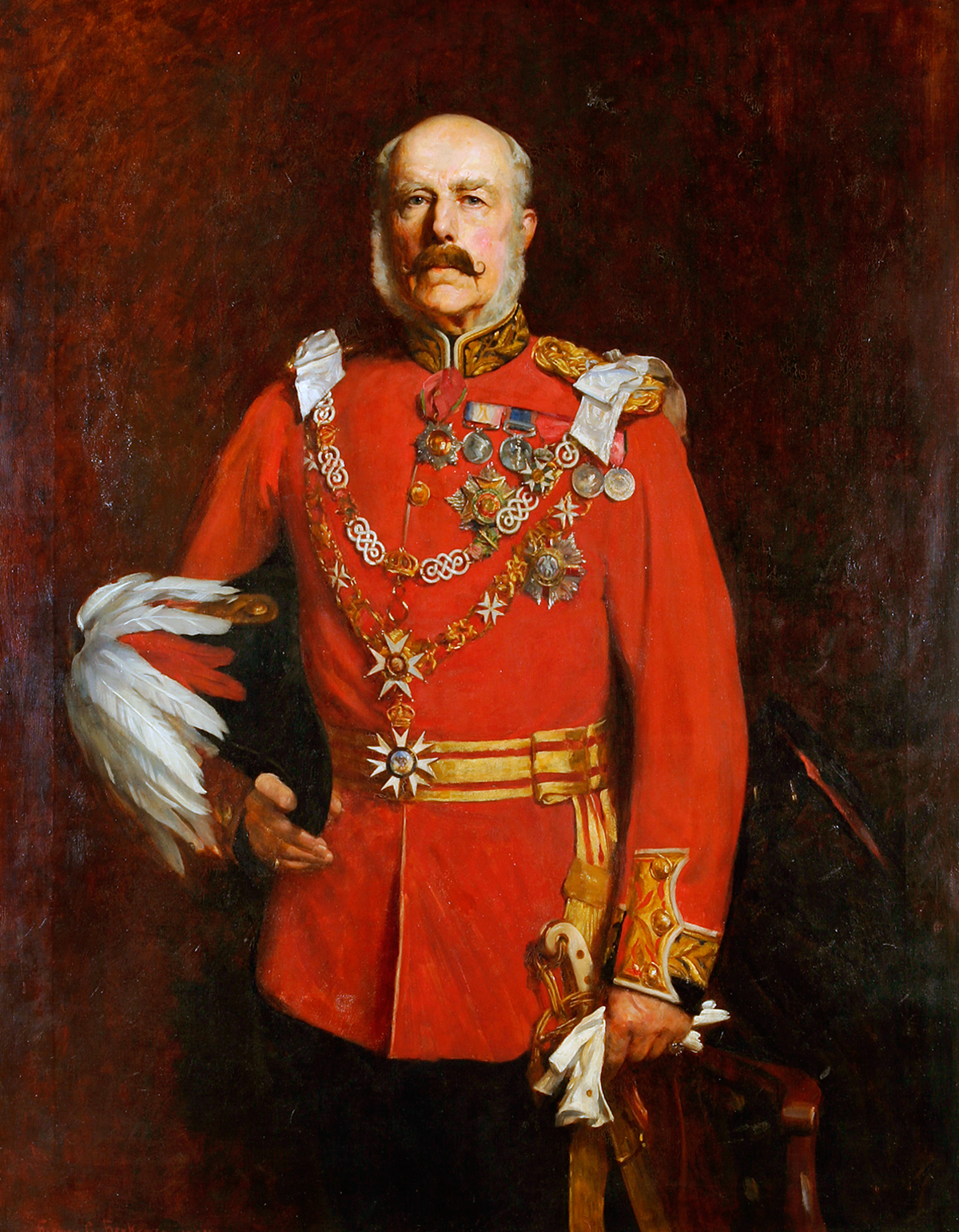 Painting of General Sir Arthur Borton